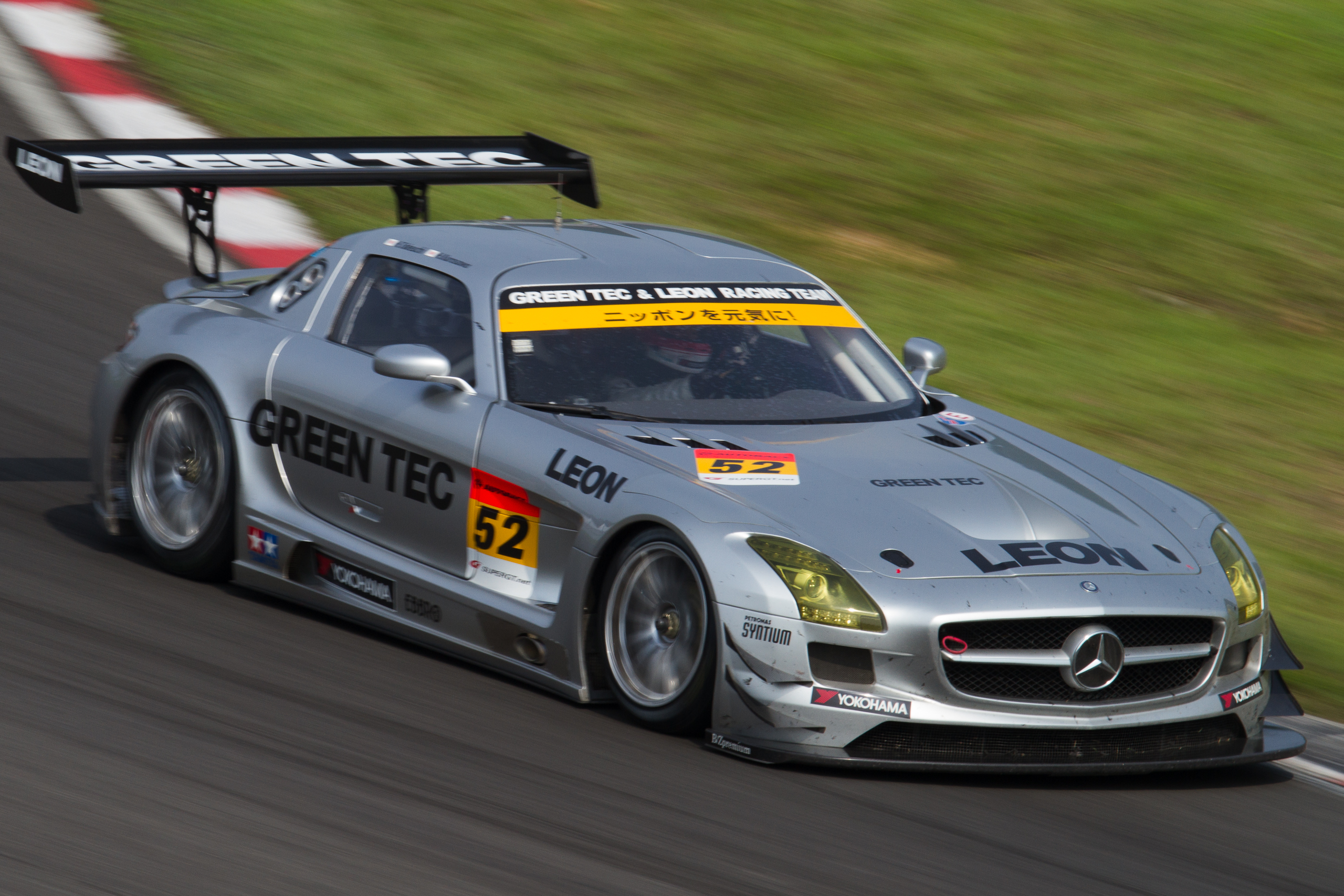 Super GT 2012 Rd.4 SUGO GT 300km: Haruki Kurosawa (GREEN TEC & LEON with SHIFT) driving the Mercedes-Benz SLS AMG GT3.